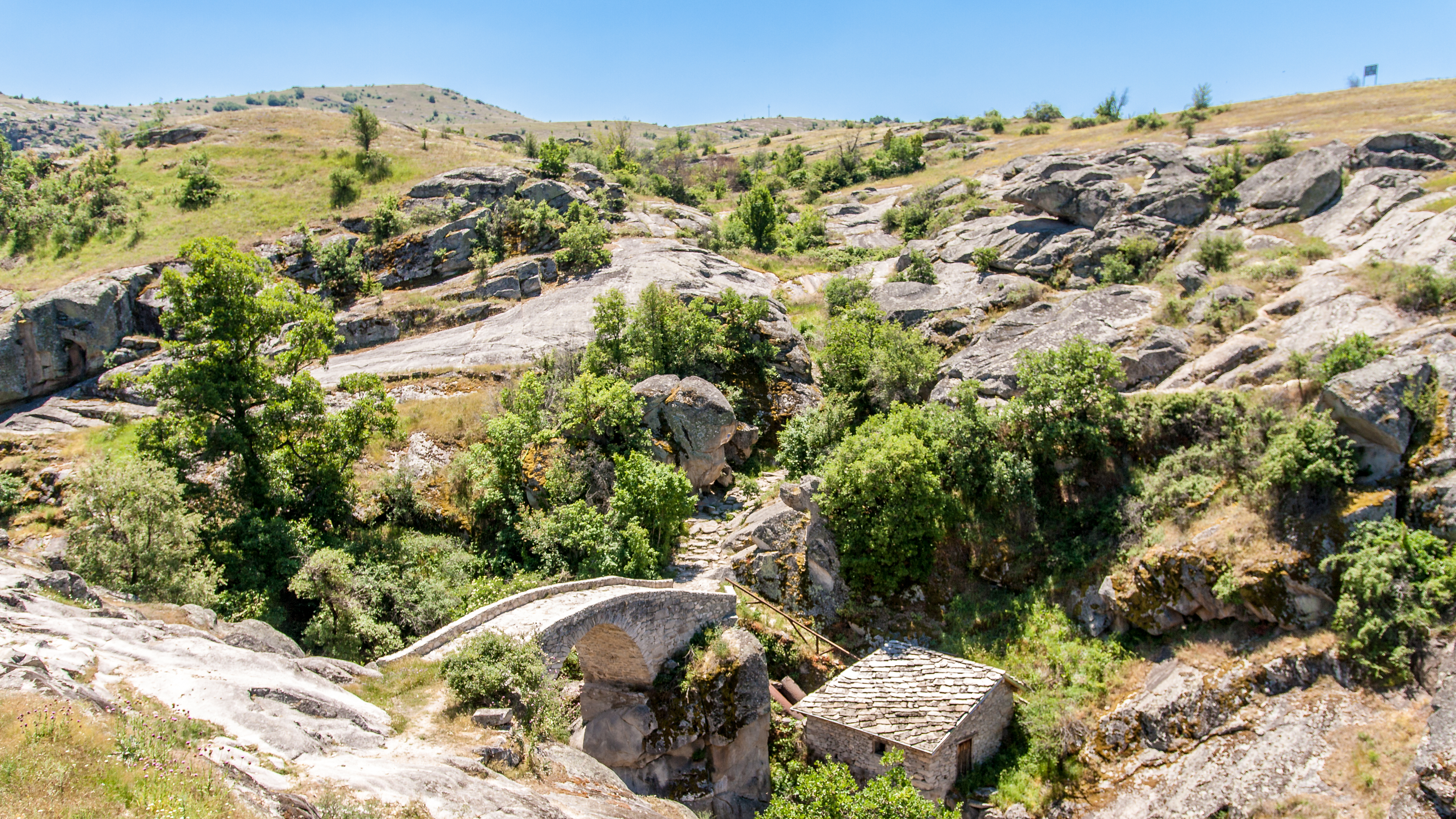 Stone Bridge in the village Zoviḱ